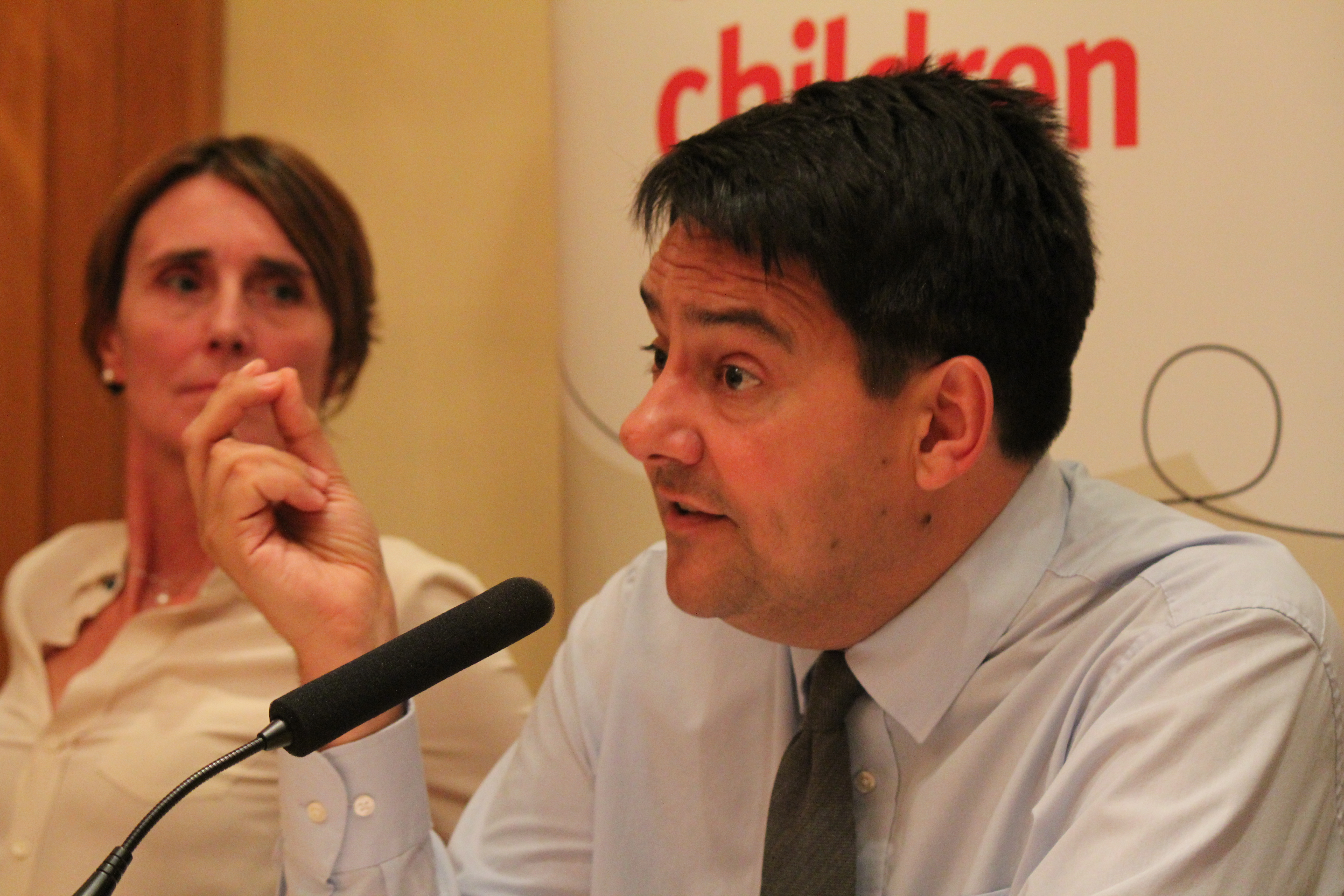 Stephen Twigg MP, Shadow Secretary of State for Education (right) and Dame Clare Tickell, Chief Executive of Action for Children